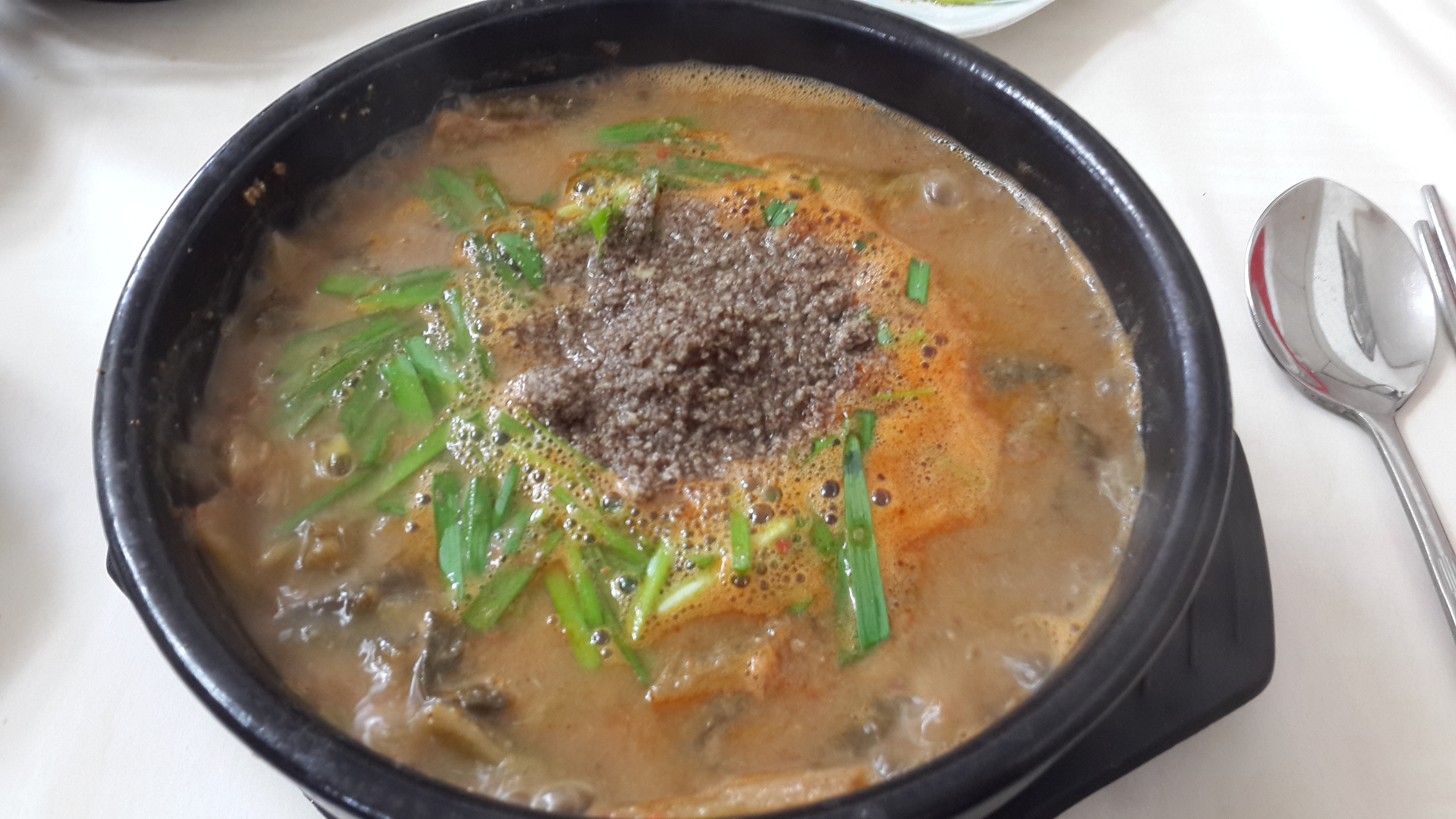 Chueotang. A Korean fish dish. (Gangjin, Jeollanam-do, South Korea)